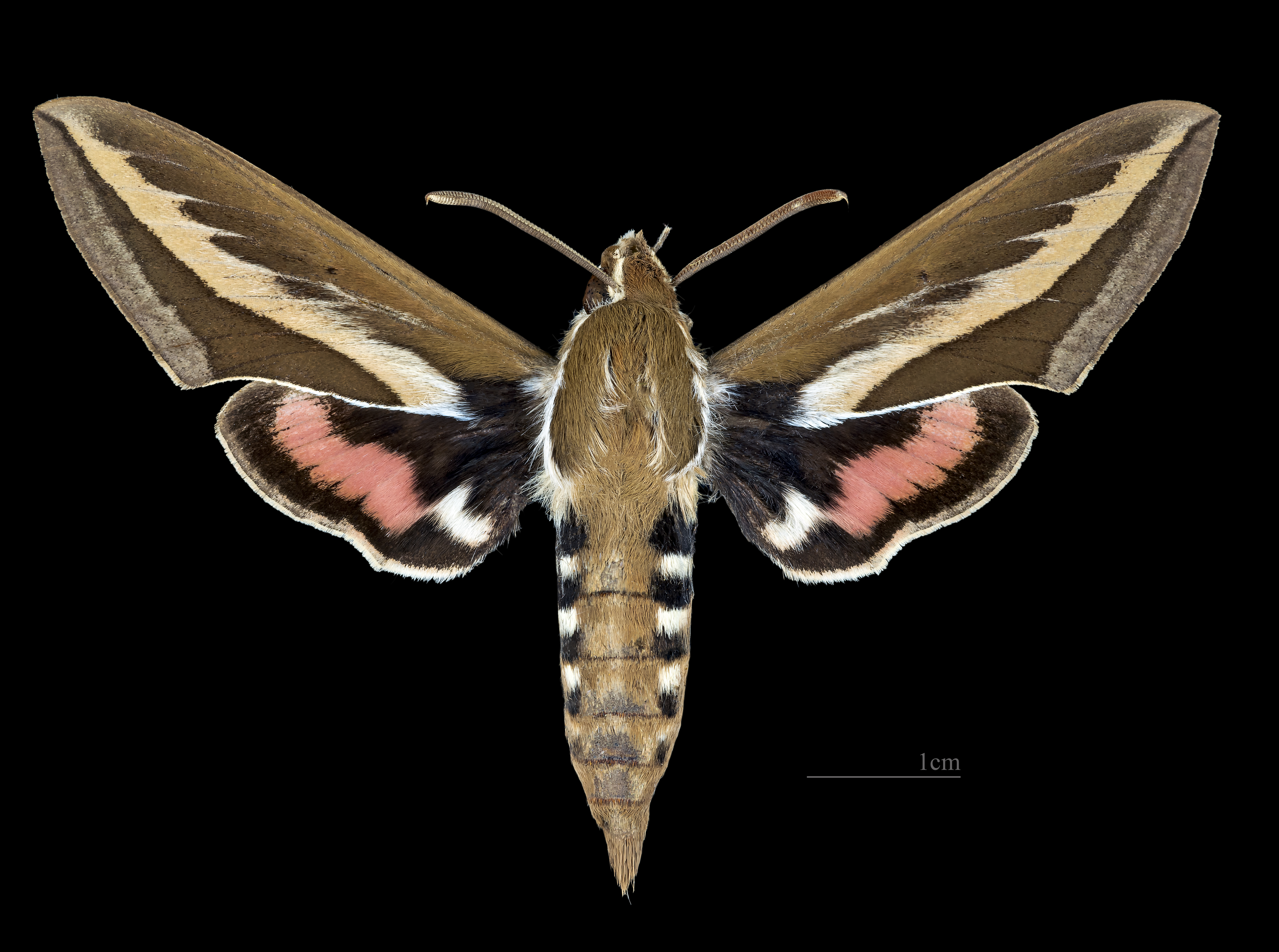 Hyles euphorbiarum - Dorsal side Collection of the Mathematician Laurent Schwartz